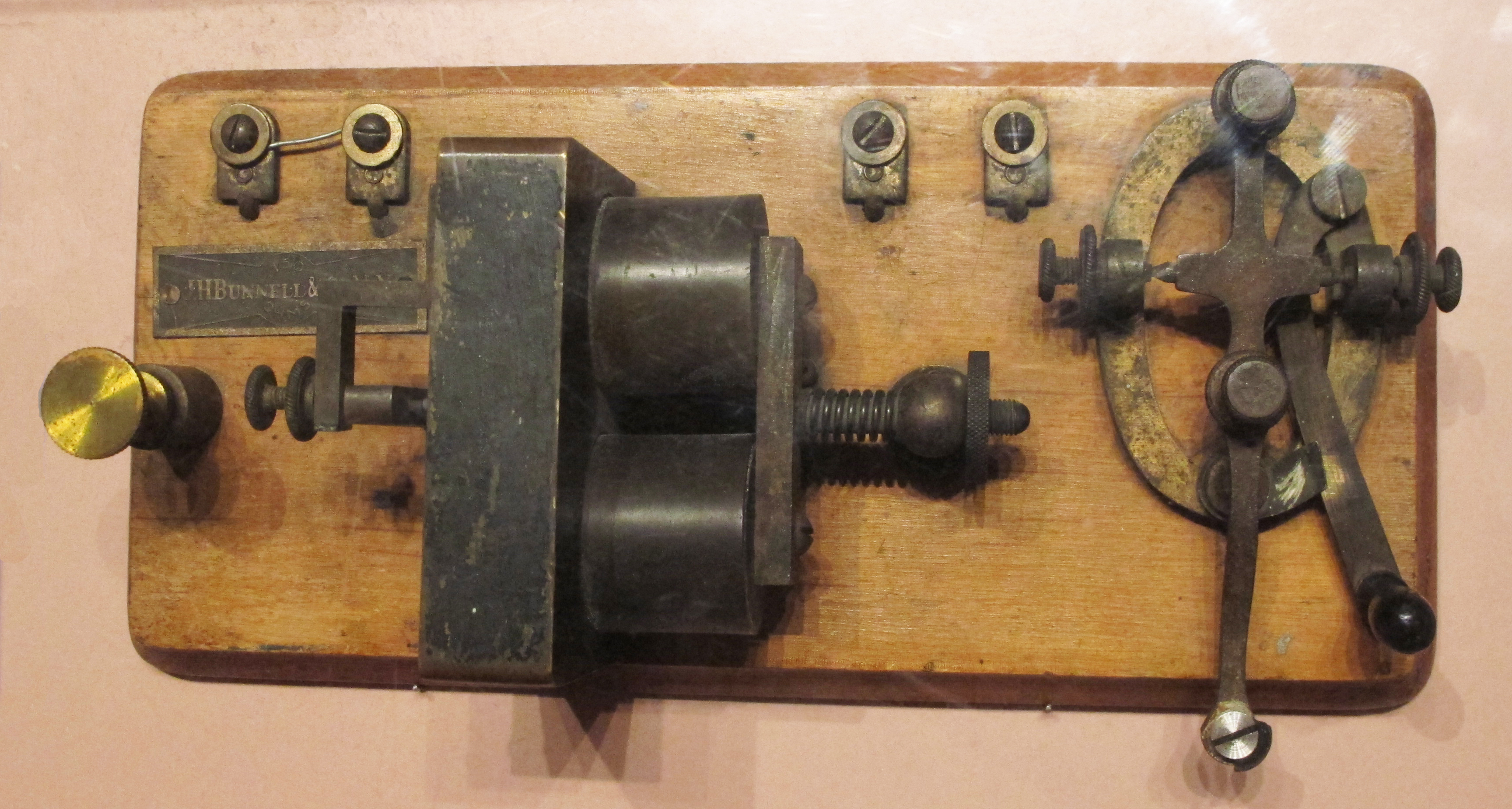 The Wright Brothers sent the famous telegram to their father from Kitty Hawk with this telegraph key. Picture taken at the "Smithsonian National Air and Space Museum", Washington, DC USA.